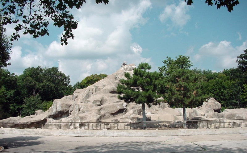 Brookfield Zoo, Chicago, Illinois, USA